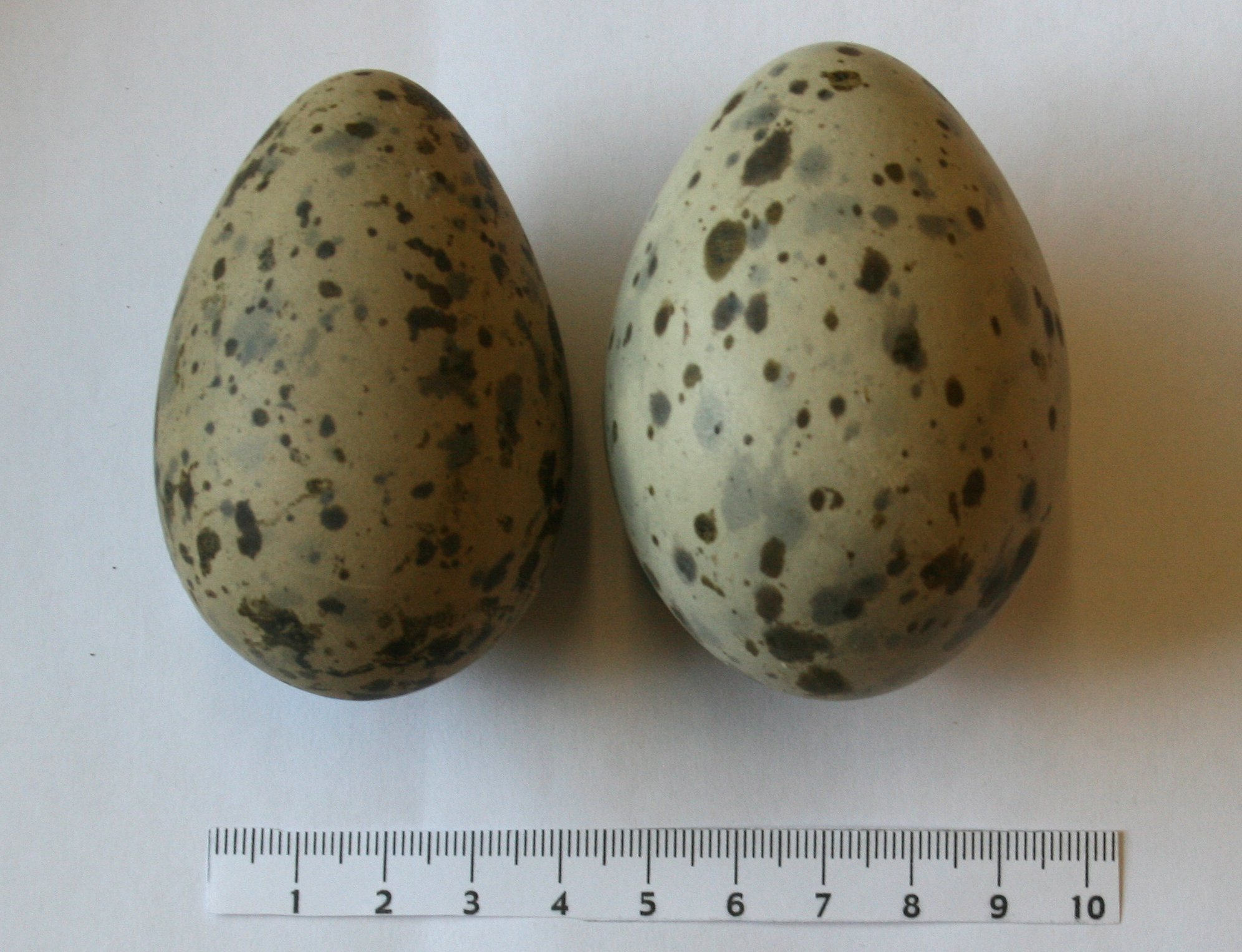 Larus Marinus eggs measured using a metric ruler. From V.Vuorisalo ja Y.Karran collection. Donated 3.6.1931 to Kokemäen Yhteiskoulu. Eggs are picked from Heinäsaari